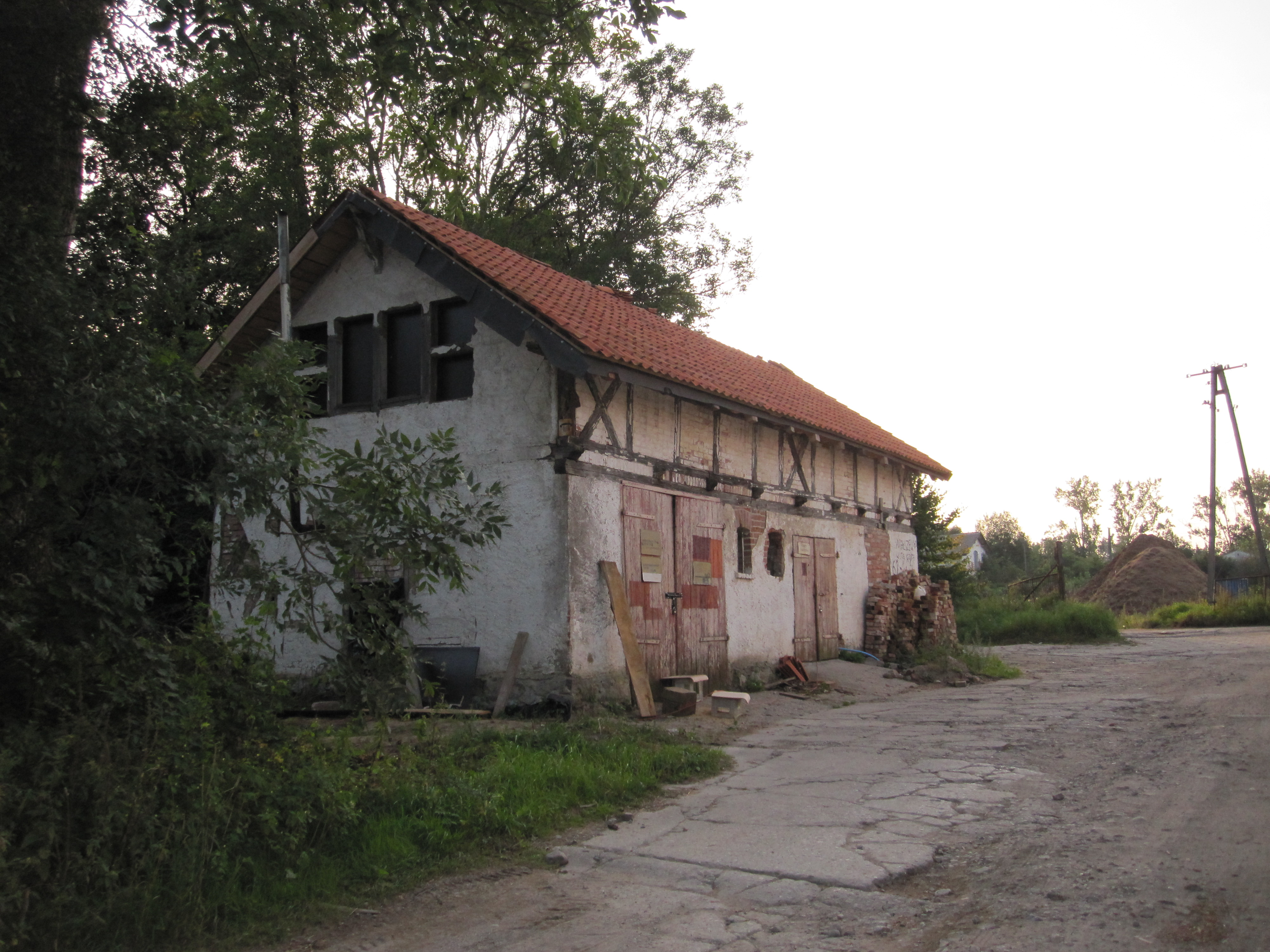 Małszewko - manor